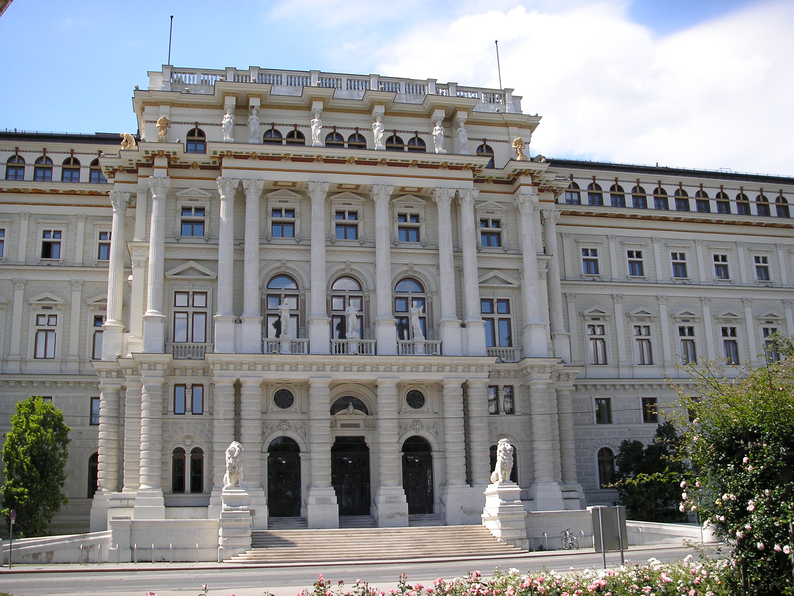 The Justizpalast in Vienna.